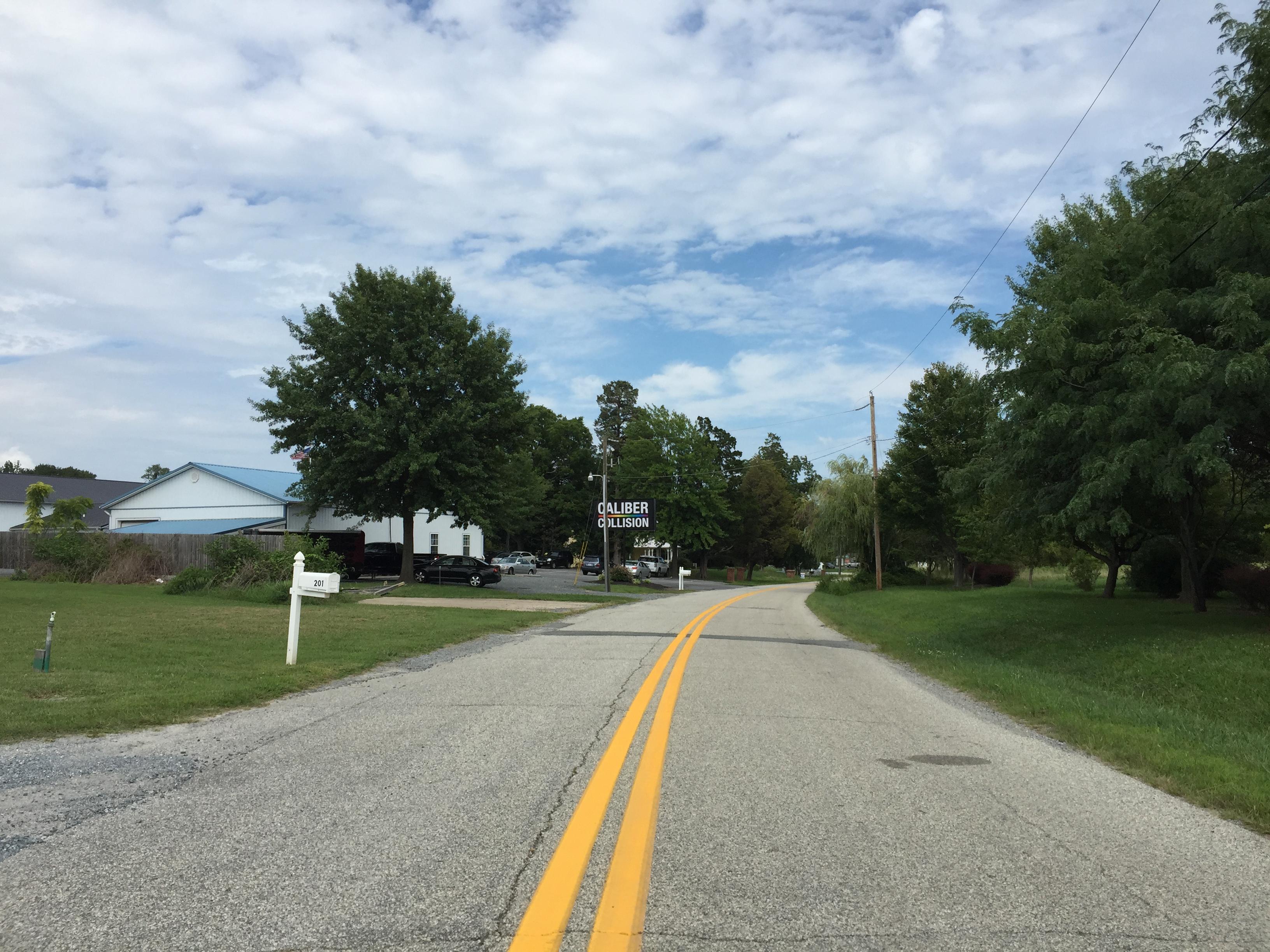 View east along Maryland State Route 759 (Love Point Road) at Cable House Road in Stevensville, Queen Anne's County, Maryland